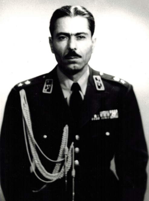 General Hassan Alavikia (حسن علوی کیا)